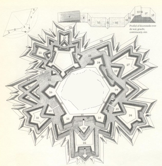 Table already on Commons without the dutch text.